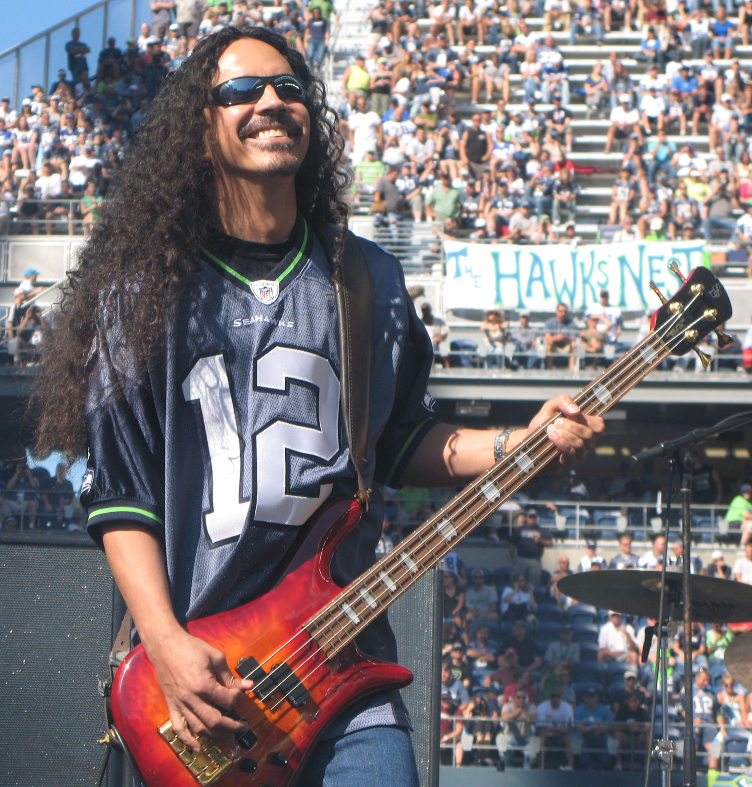 dfad